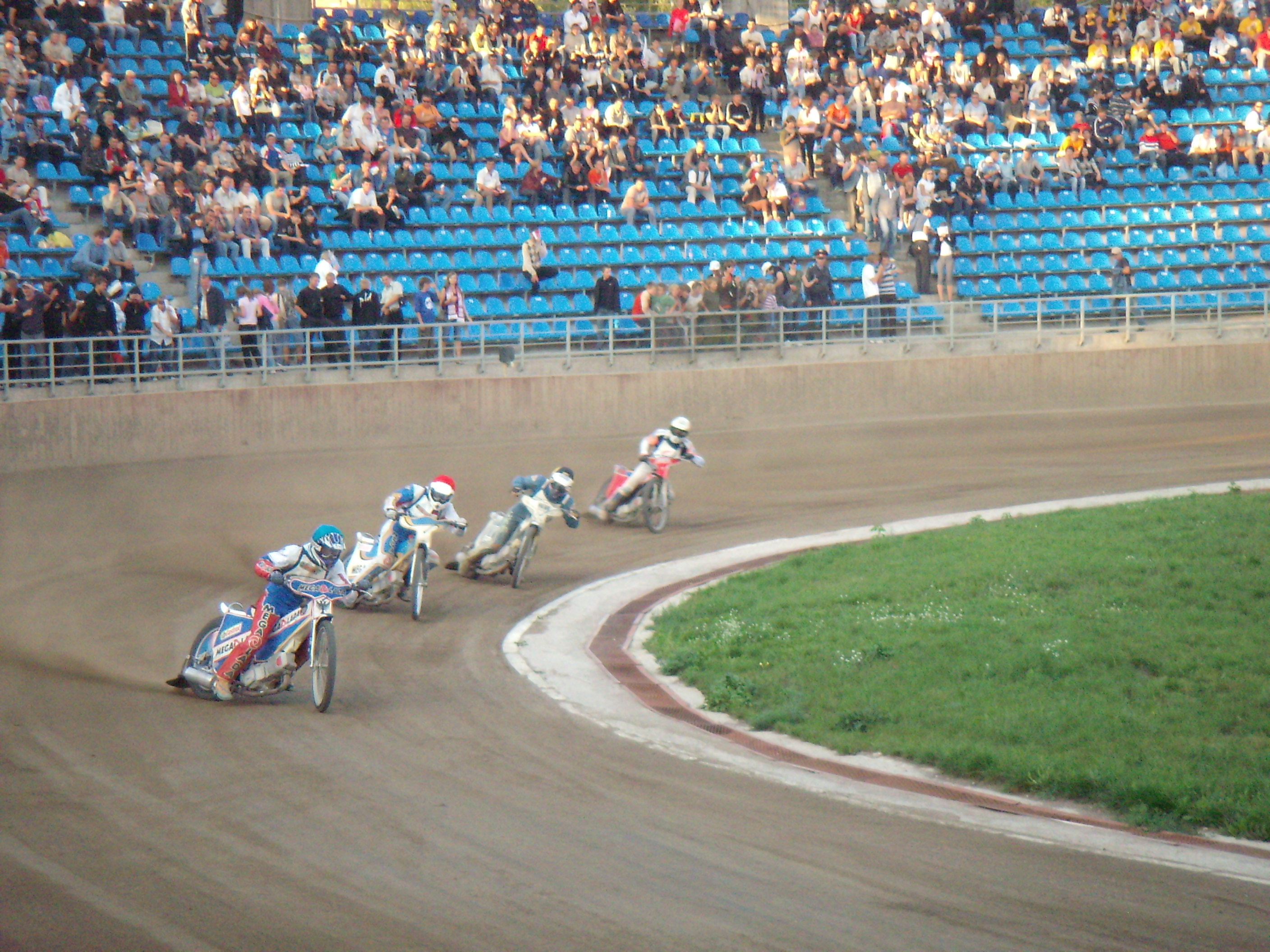 Mega-Lada's riders first on track